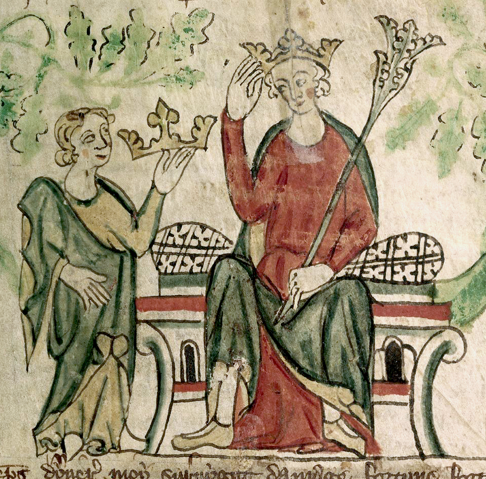 An illuminated detail from BL Royal MS 20 A ii, Chronicle of England [folio 10], showing Edward II of England receiving his crown. Held and digitised by the British Library.